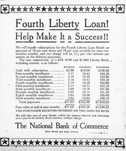 National Bank of Commerce, Houston, Texas advertising sale of Liberty Bonds, 3 October 2018.